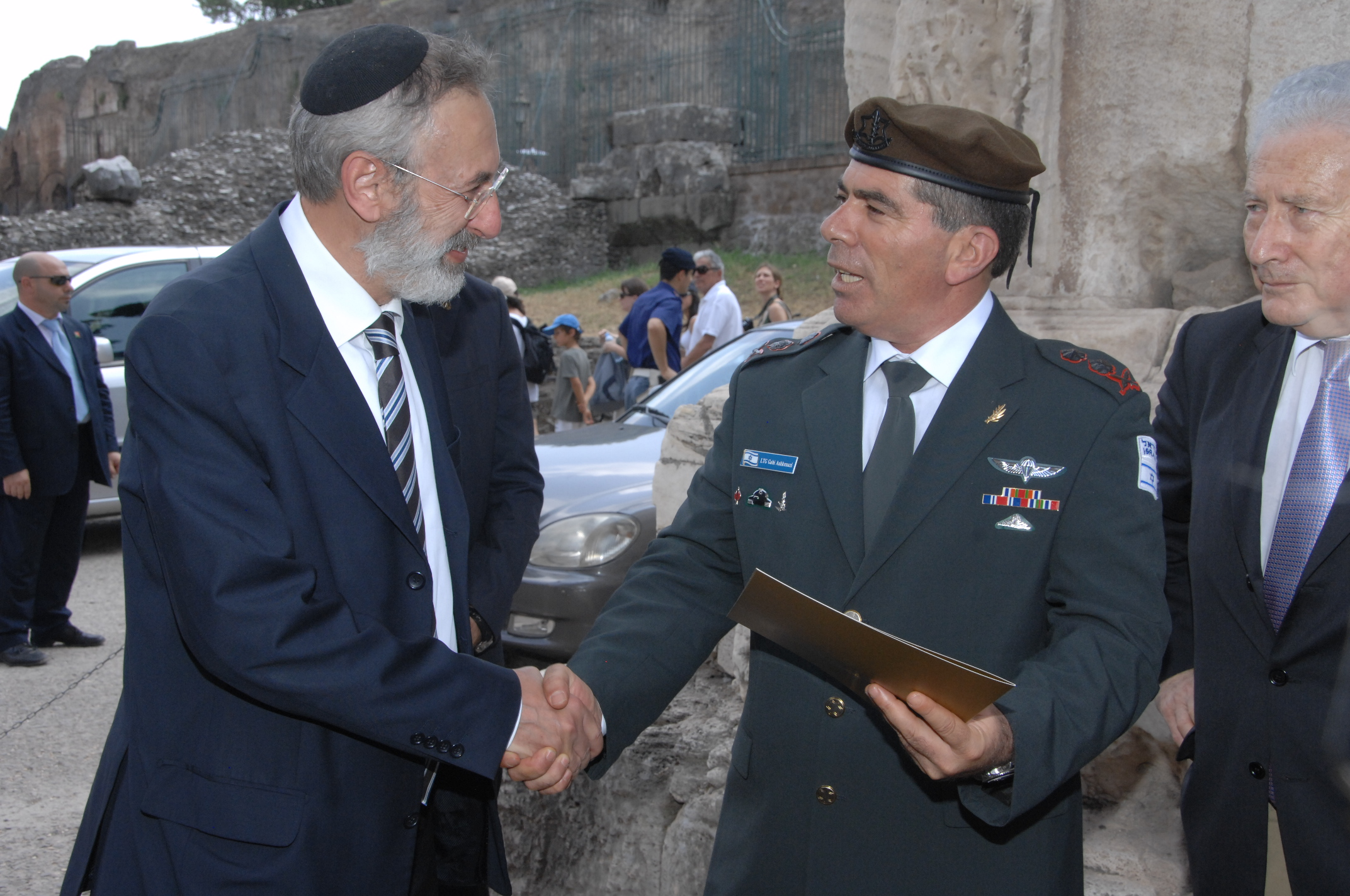 July 19, 2010. The Chief of the General Staff, Lieutenant General Gabi Ashkenazi, began his work visit to the Italian Armed Forces as a guest of the Chief of Defense Staff of Italy, General Vincenzo Camporini. The Israel Defense Forces Facebook • blog • Twitter